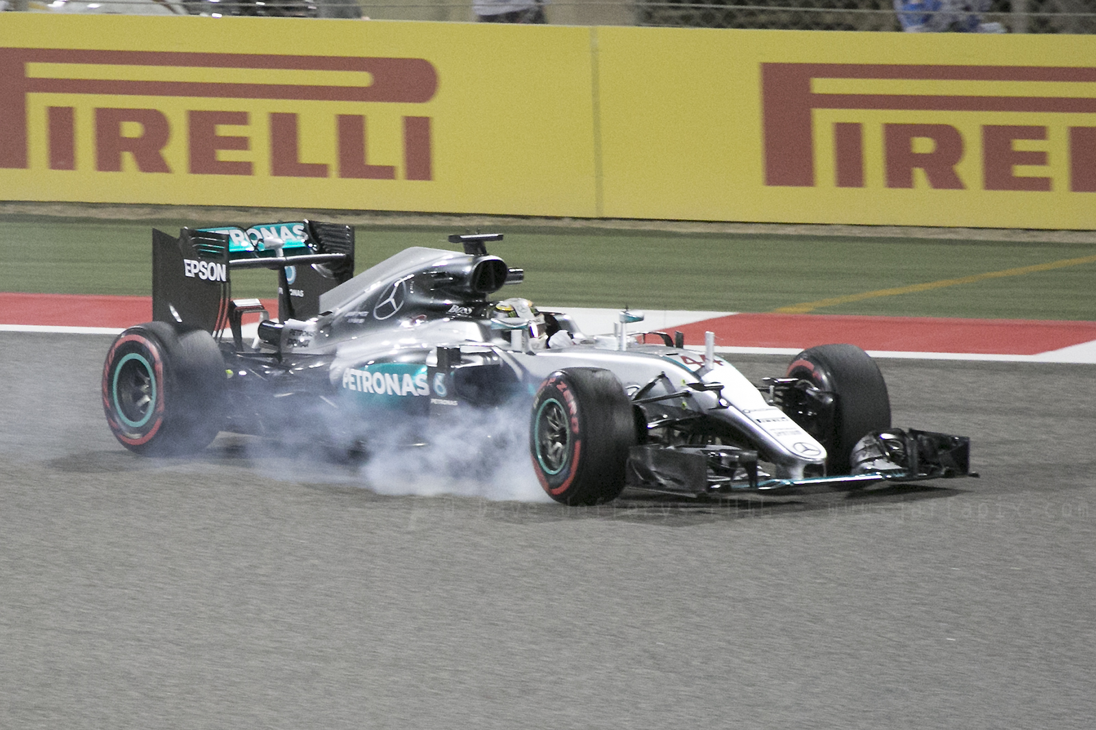 Lewis Hamilton at the 2016 Bahrain Grand Prix